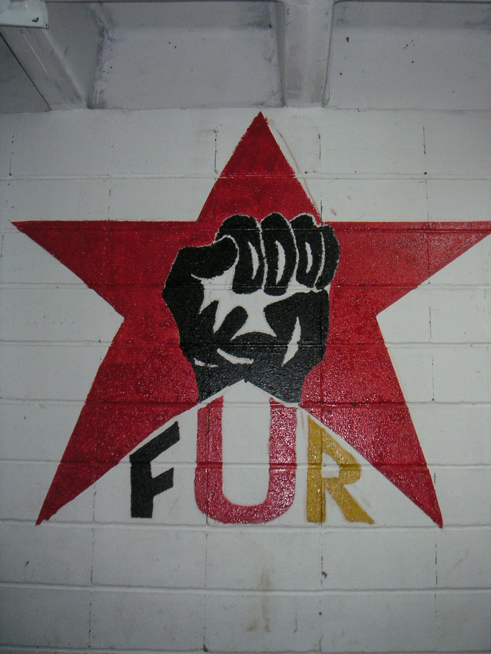 Graffiti of Fuerza Universitaria Revolucionaria (FUR) symbol